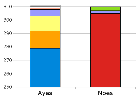 Votes by party in the 1979 vote of no confidence against the government of James Callaghan. This graph starts at 250. All voters in first 250 are Conservative/Labour. Yes vote totals: 279 conservative 13 liberal 11 scottish national party 5 ulster unionist 1 independent 1 united ulster unionist 1 democratic unionist No vote totals: 287 labour 16 labour co-operative 3 plaid cymru 2 ulster unionist 2 Scottish labour